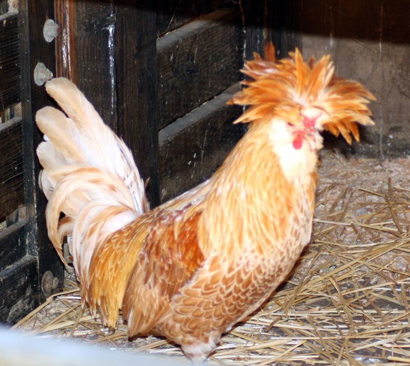 A buff (colored) laced Polish chicken